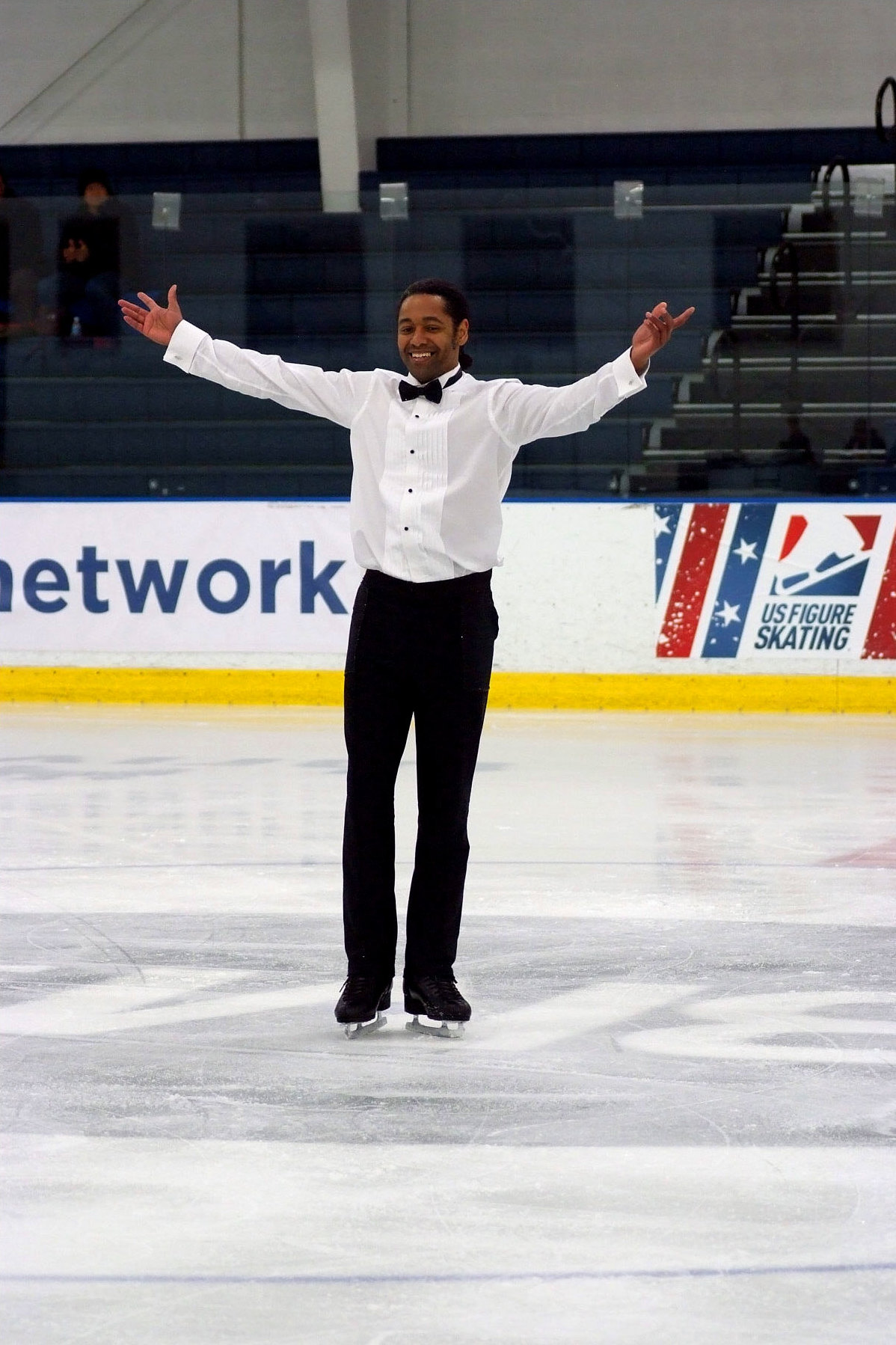 2014 U.S. Adult Sectional Championships - Strongsville, Ohio